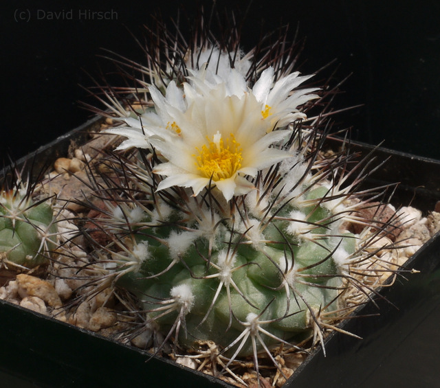 Turbinicarpus viereckii ssp. gielsdorfianus, Sierra Cardona, S.L.P. with flower.